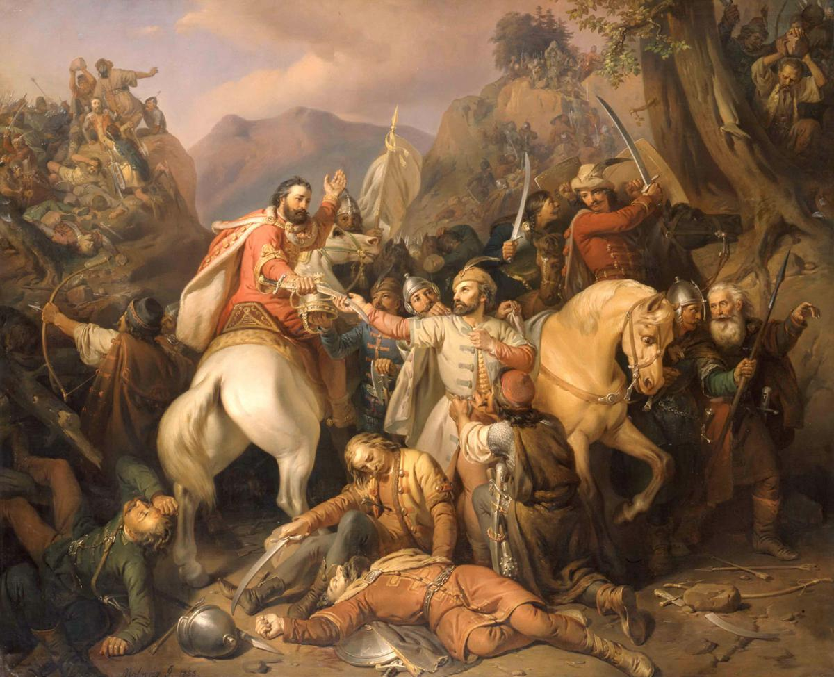 King Charles I fleeing from the Battle of Posada (November 9-12, 1330). Romantic painting Charles' army wear hussar clothes of the 17th century. The Basarab I of Wallachia's army ambushed Charles Robert of Anjou, king of Hungary and his 30,000-strong invading army. The Vlach (Romanian) warriors rolled down rocks over the cliff edges in a place where the Hungarian mounted knights could not escape from them nor climb the heights to dislodge the attackers.